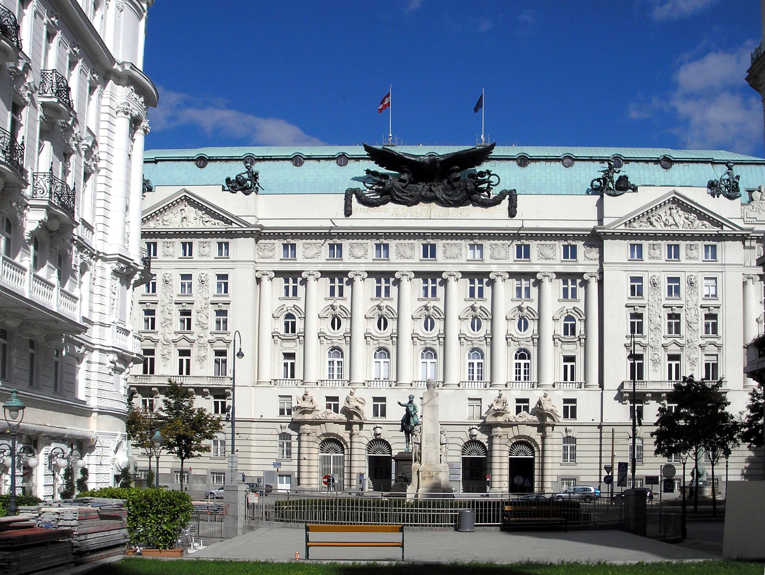 The Regierungsgebäude in Vienna, the former Imperial and Royal Ministry of War (Kriegsministerium).